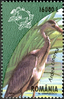 Grey Heron (Ardea cinerea). Post of Romania 2004.